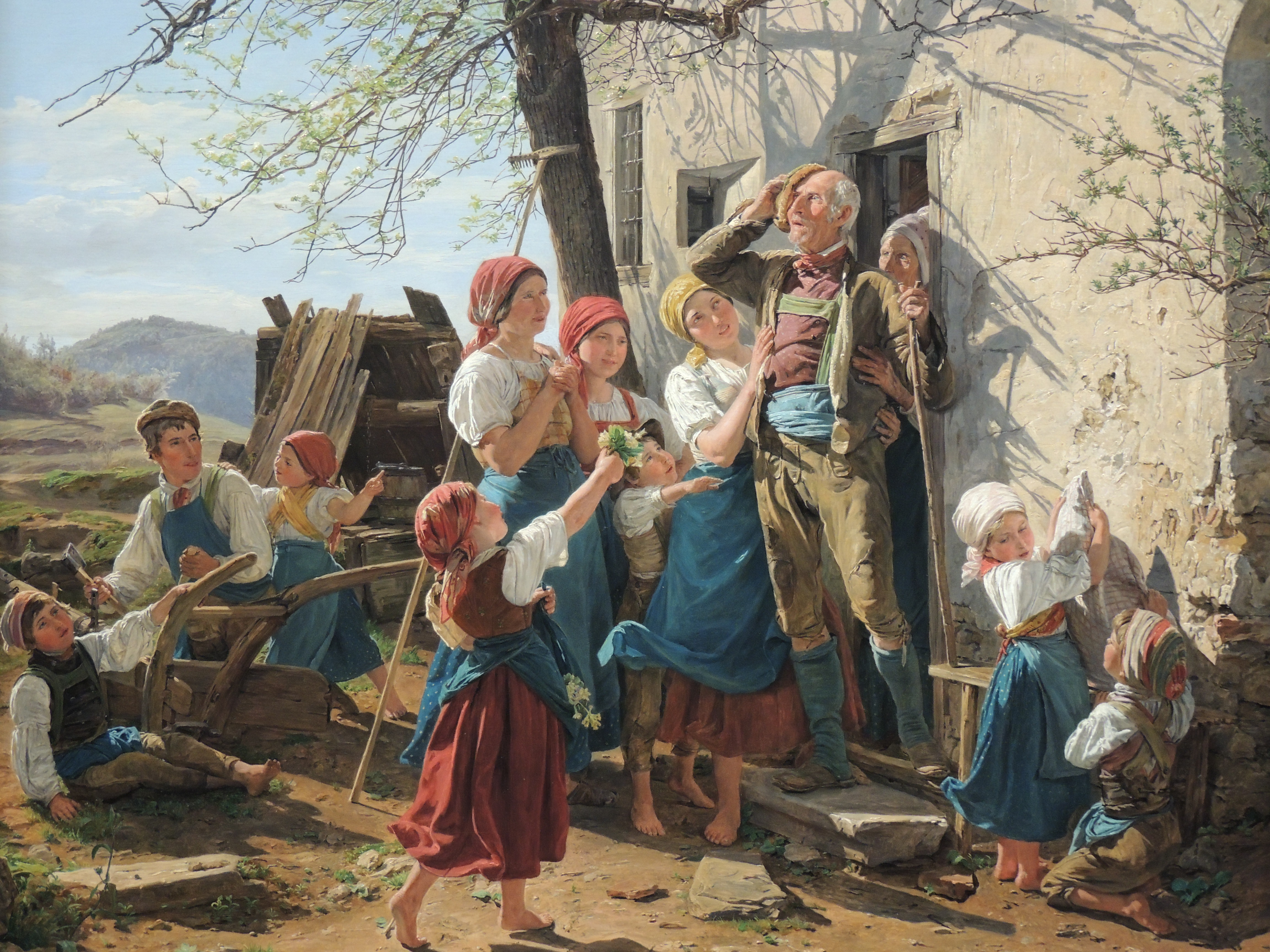 Ferdinand Georg Waldmüller, Restored to New Life, oil on panel